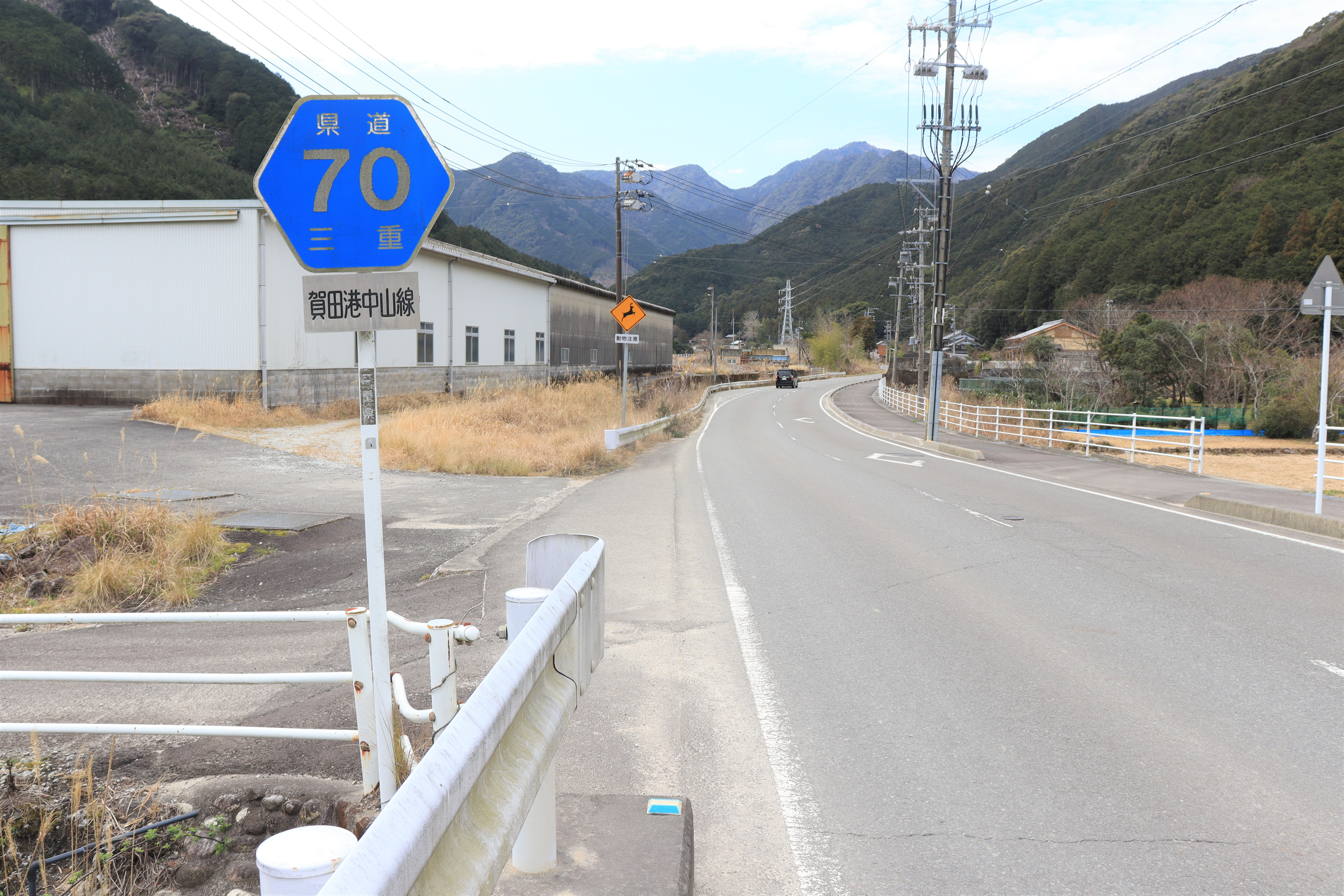 Mie Prefectural Road Route 70 in Kata, Owase, Mie Prefecture, Japan.